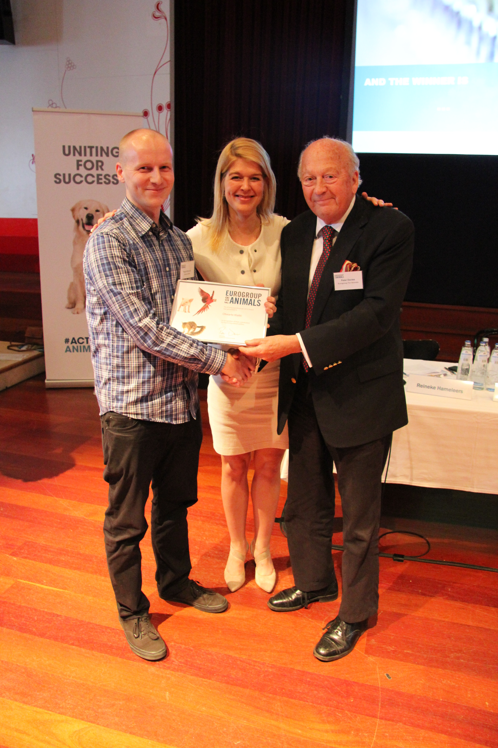 Peter Davies from Eurogroup for Animals presenting the Campaign4Animals Award to Otwarte Klatki (Open Cages) on 22 June 2016 Flickr description Otwarte Klatki otrzymały nagrodę Campaign4Animals - 22.06.2016